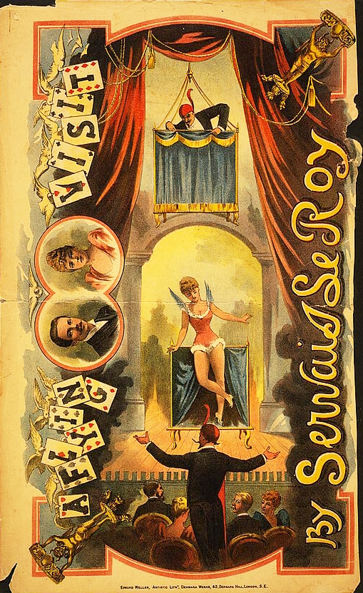 "A flying visit by Servais Le Roy." Poster for a magic show by Belgian magician Servais Le Roy (1865-1953)